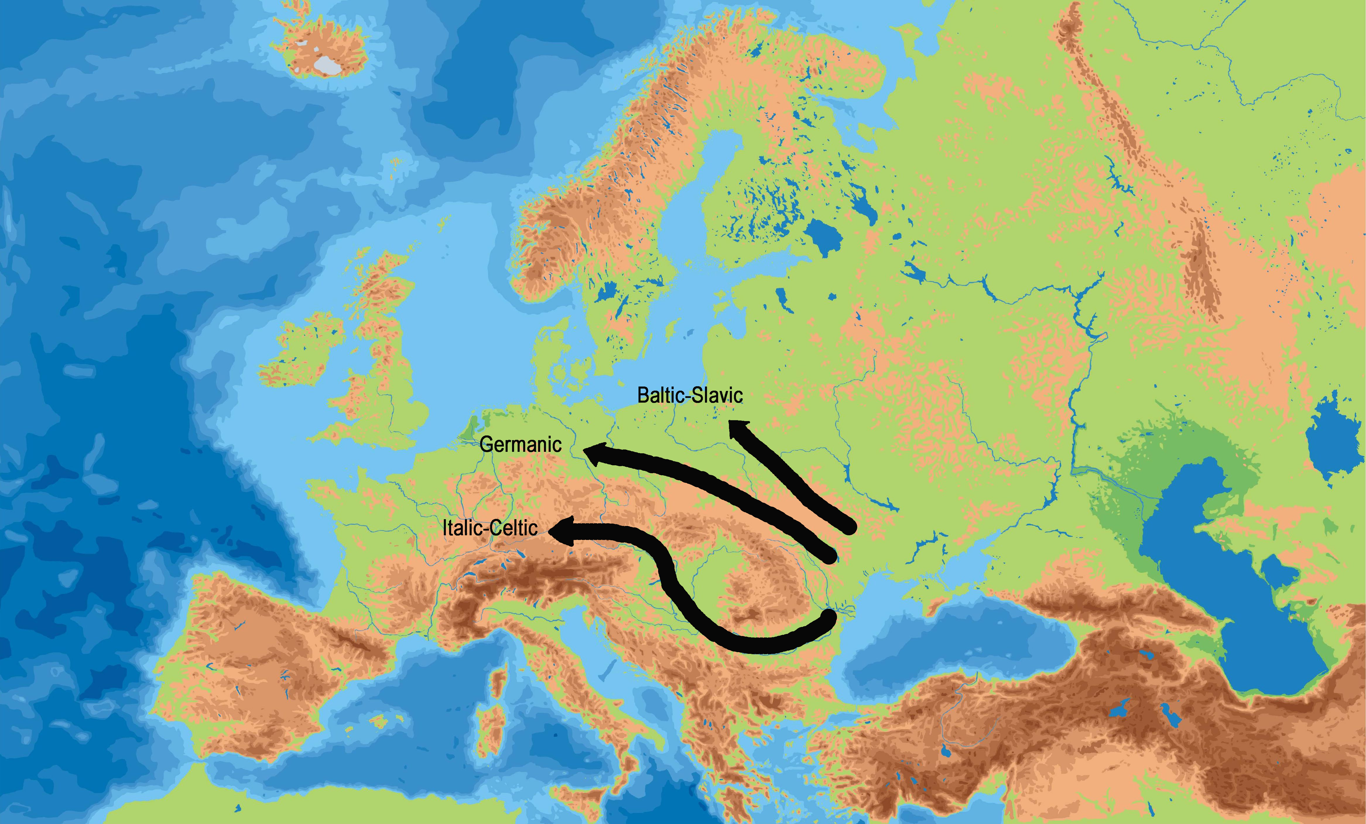 IE-migrations north and south of the Carpatian mountains. Created by myself, using "File:Europe geographycal hires.jpg". Sorry, I'm not familiair with all the different licenses; I hope someone can work that out.